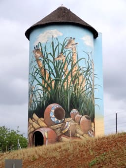 Kaapmuiden Grain Tower